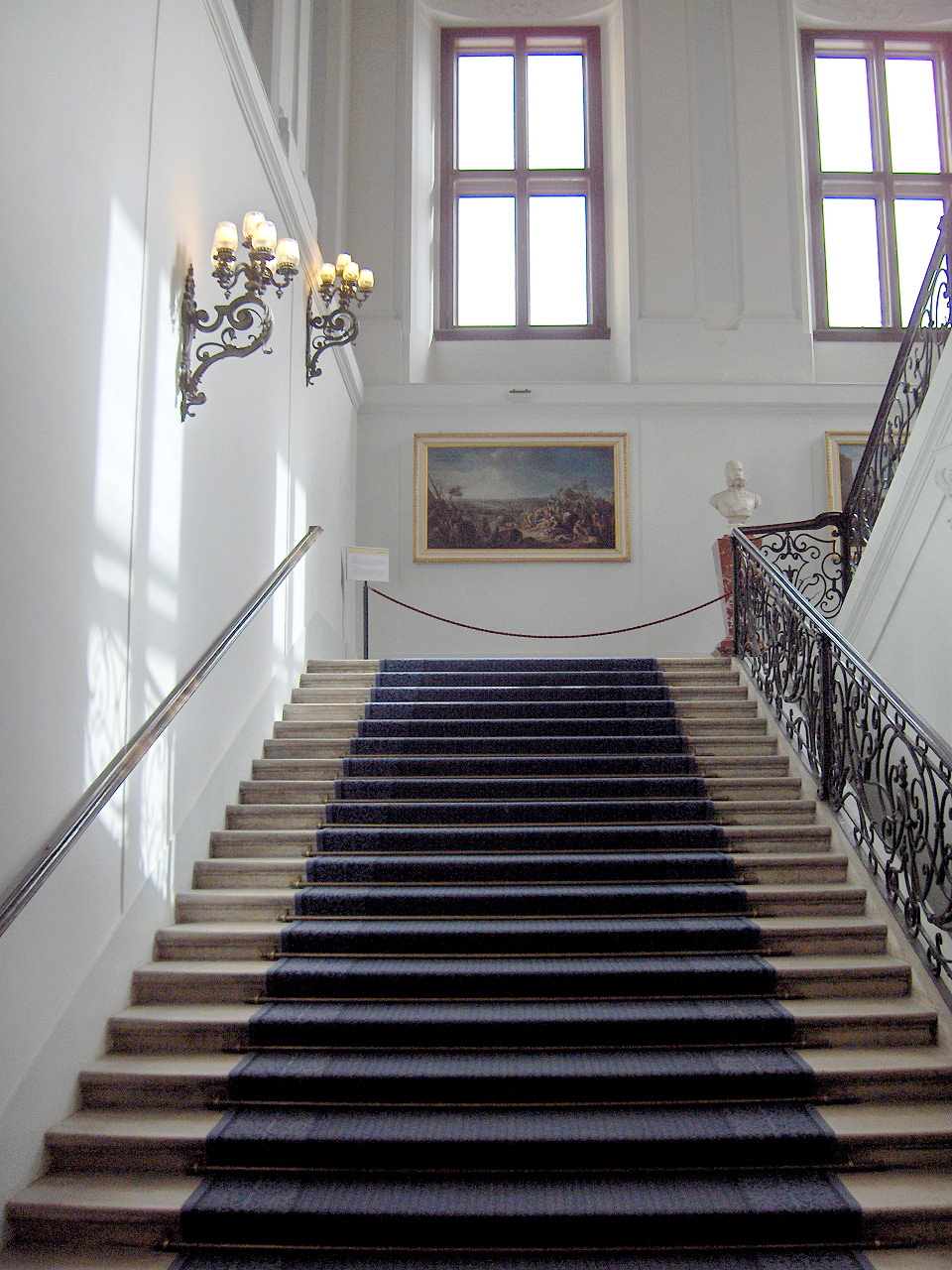 Entrance hall with the Blue Staircase of the Schönbrunn Palace in Vienna, Austria